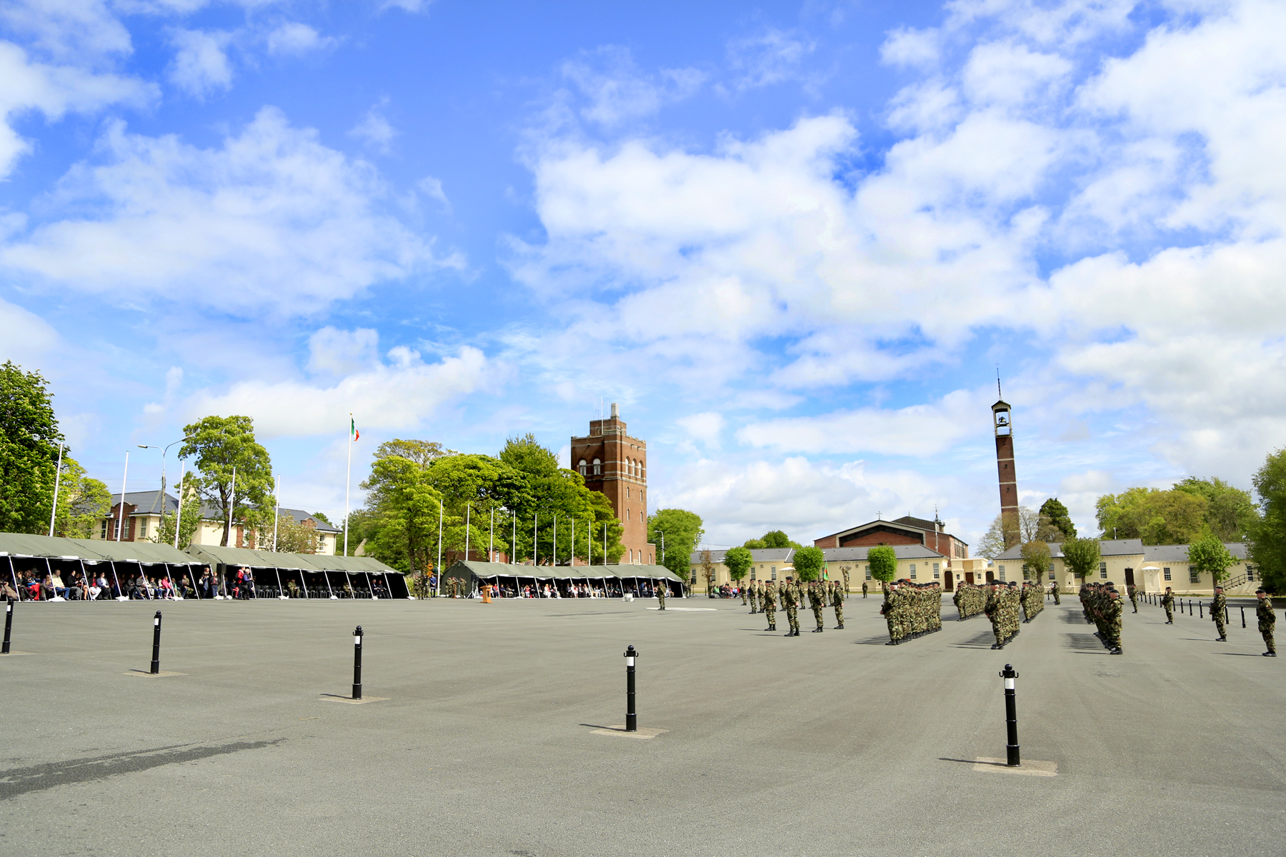 45 Inf Gp UNIFIL Ministerial Review Curragh Camp 002